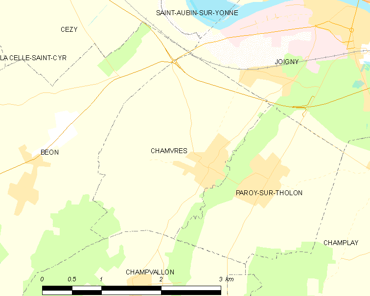 Map of French municipality Chamvres